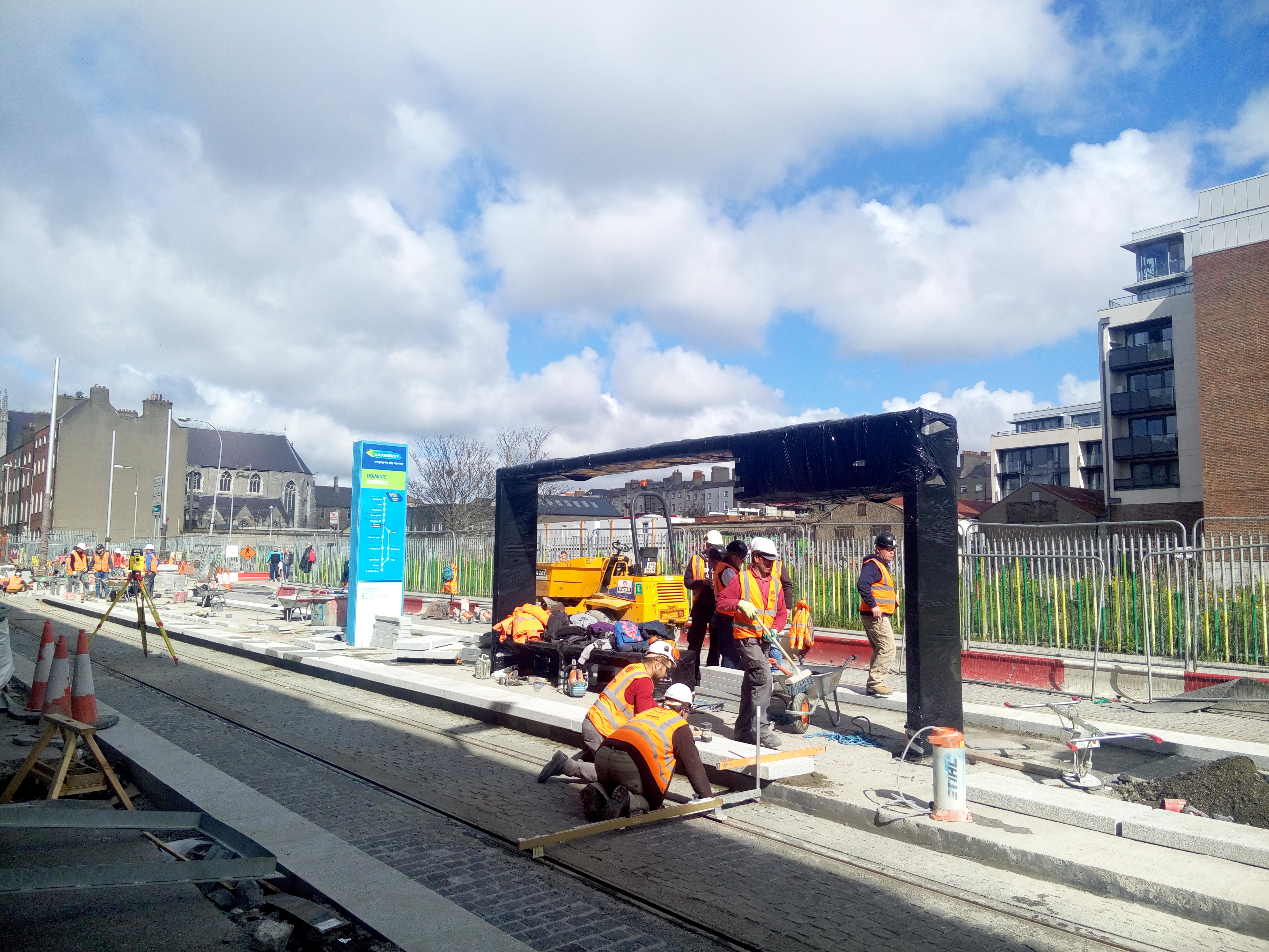 The photo about Luas Green line - Cross City extension line Dominick station construction site that taken in Dominick Street Lower, in north Dublin